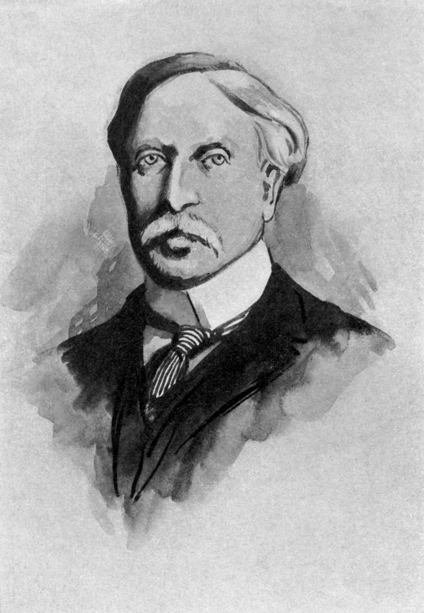 Irish Novelist George Augustus Moore.